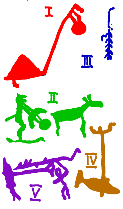 Petroglyphs from site Besov Nos from Lake Onega in Carelia Russia.